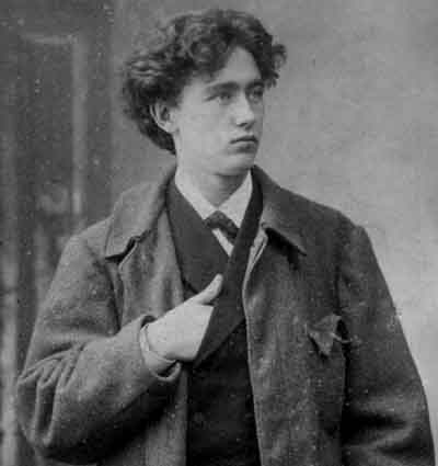 The image of Austrian conductor, Felix Weingartner